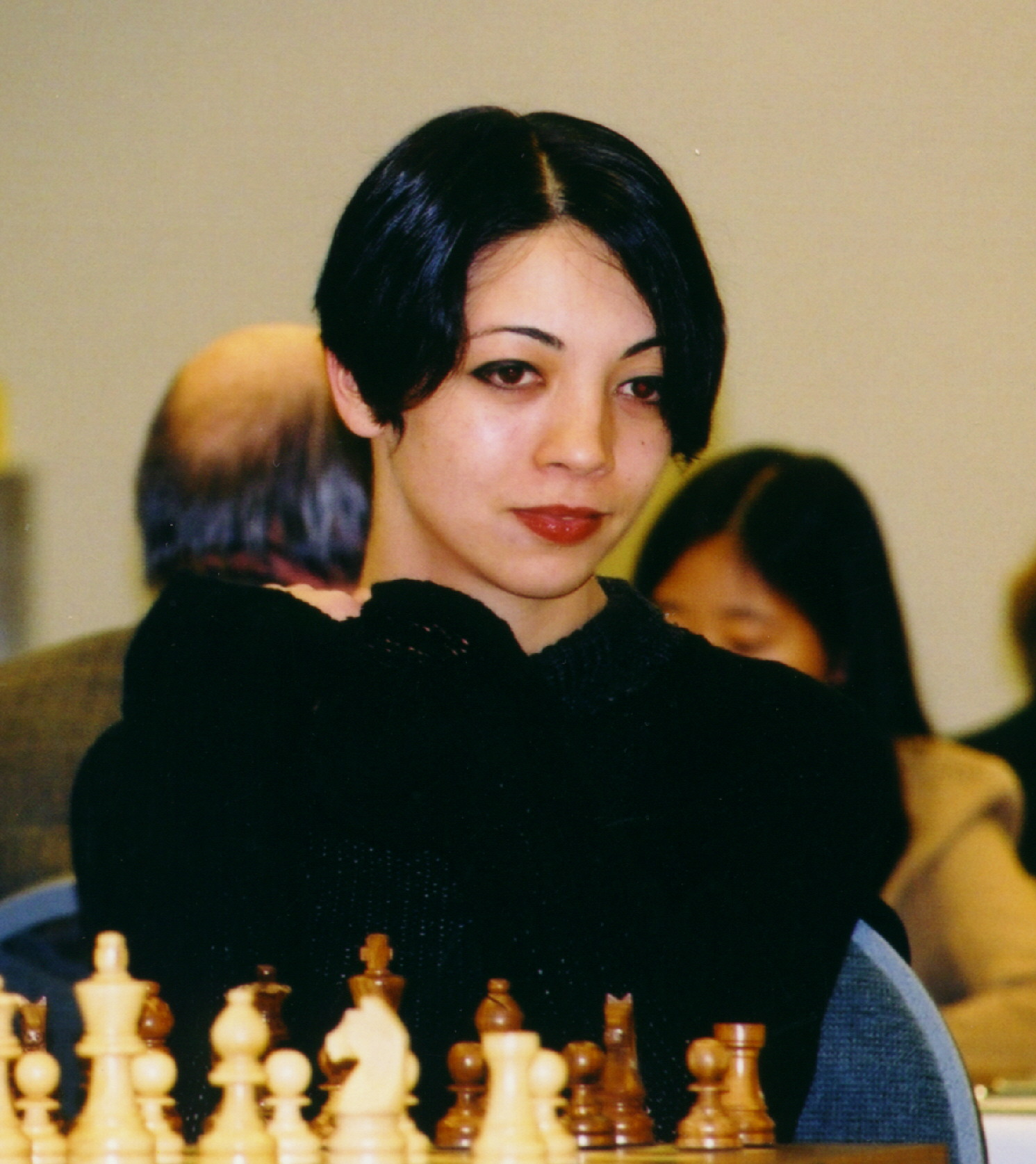 Anna Hahn, 2003 U.S. Women's Chess Champion, at the 2003 U.S. Chess Championships in Seattle, Washington.